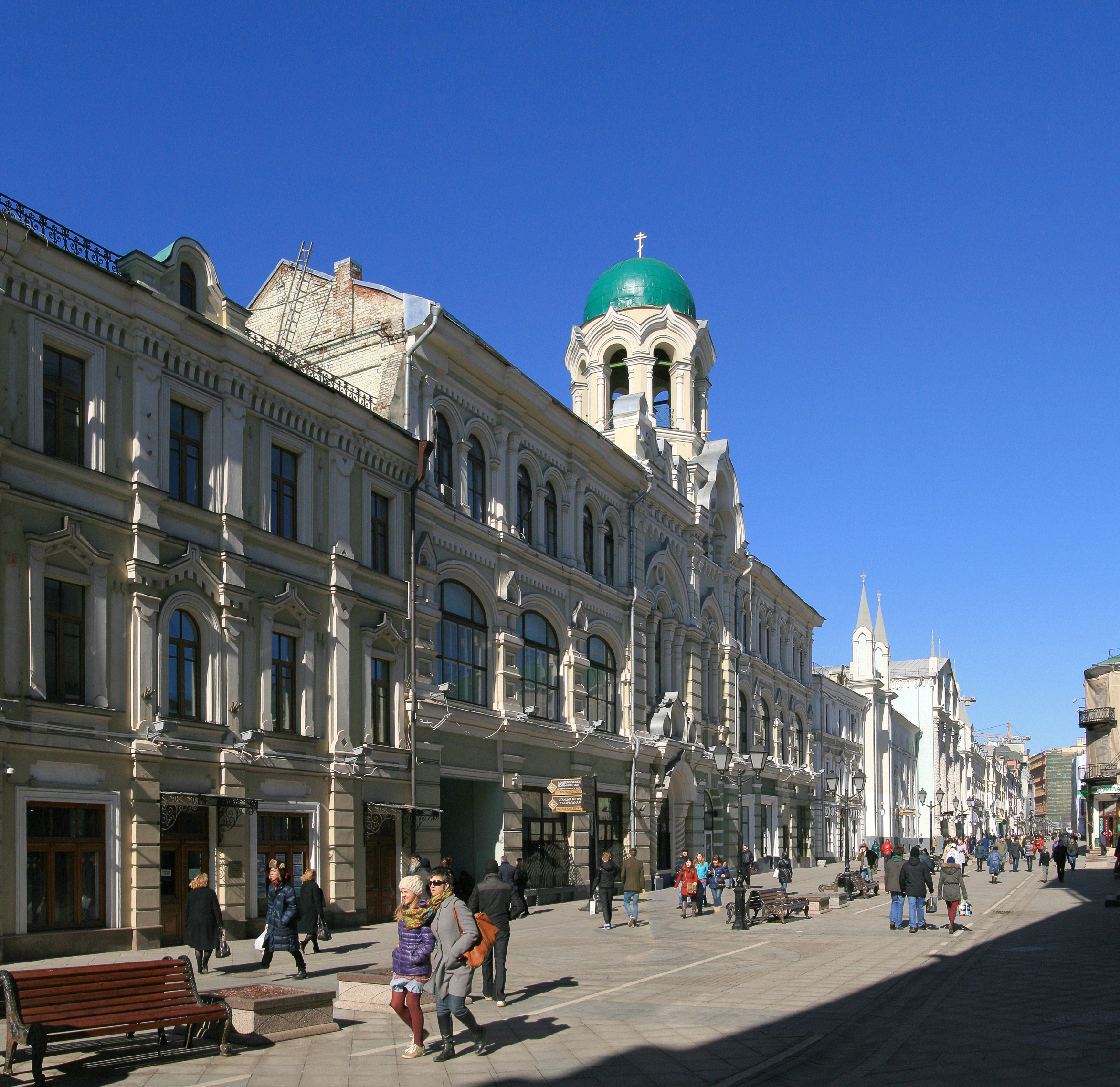 Nikolskaya street, Moscow